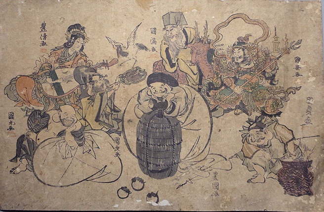 New Year surimono, “The Seven Gods of Luck“, designed by seven artists of the Utagawa school (Toyokuni I, Kunimaru, Toyokiyo, Kuniyasu, Kunisada I, Kunimitsu, Kunitsugu), horizontal ōban, c. 1820